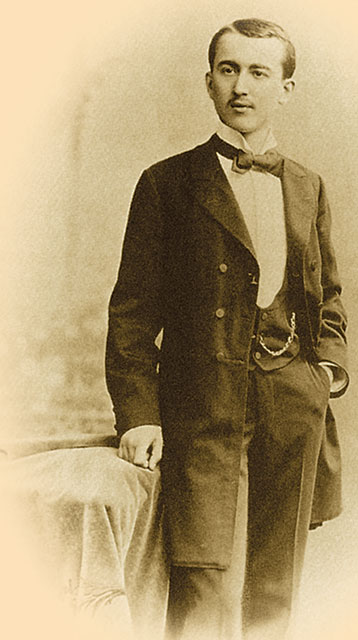 Milutin Milanković as student, in Viena.